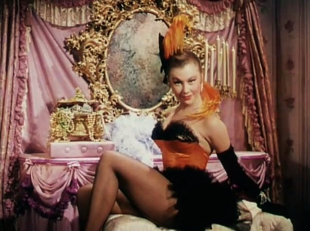 Mitzi Gaynor in Bloodhounds of Broadway - trailer (cropped screenshot)